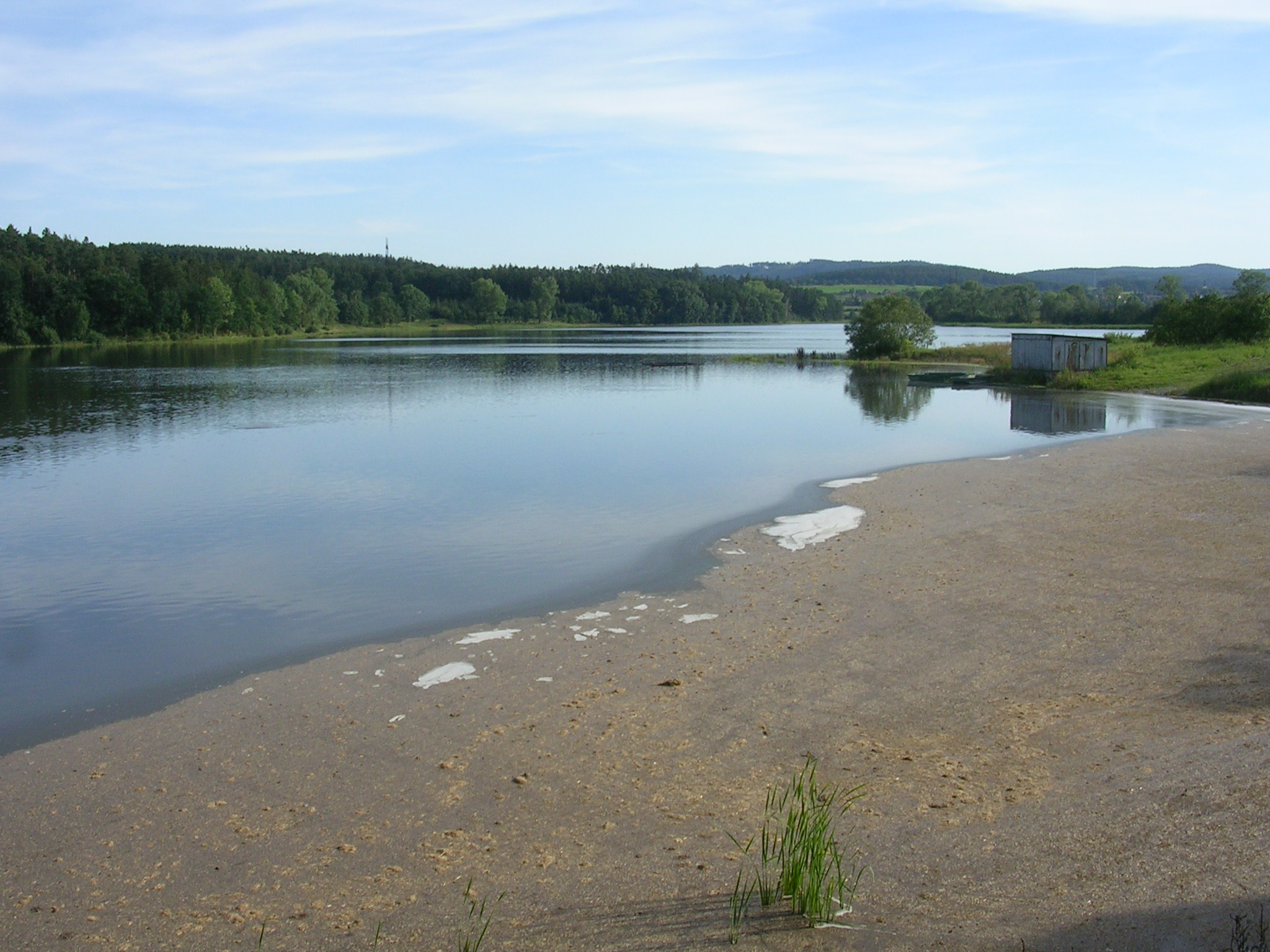 Dublovice, Příbram District, Central Bohemian Region, the Czech Republic. Musík Pond.